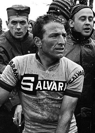 The Italian cyclist Vito Taccone has just finished the 20th stage of the Giro d'Italia Madesimo-Stelvio. Stelvio, 3rd June 1965